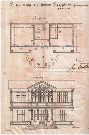 Vladimir Antonov Plan of the house of Sifrid Miladinov